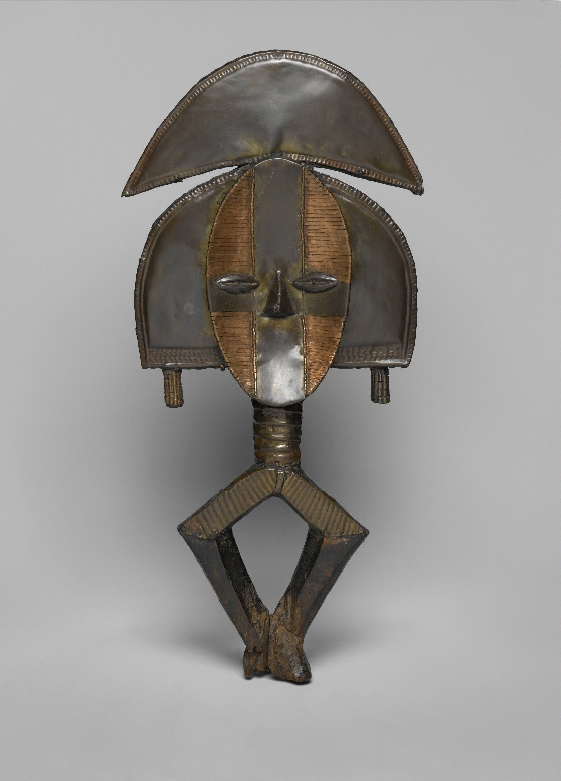 Kota reliquary figure known as Bwiti. Carved wood covered with copper and brass metal strips, engraved with geometric patterns. Concave, oval-shaped face bisected with two broad metal strips; remainder of the face covered with horizontally placed narrow metal strips. Almond-shaped eyes, nail heads as pupils. Nose, pointed dihedral shape; no mouth. "Extended elephant ears" with pendant earring of engraved metal strips. Crescent-shaped headdress, engraved along outer edge. Neck covered wtih single metal strip, engraved. Diamond-shaped lower portion of sculpture, top half covered wtih metal strip, lower portion wood left uncovered. CONDITION: Bottom of wood base damaged, some portions rotted away. The Kota once used reliquary guardian figures (mbulu ngulu) to protect and demarcate the revered bones of family ancestors. The bones were preserved in containers made of bark or basketry. The mbulu ngulu stood atop this bundle, bound to it at the figure's lozenge-shaped base. It is thought that the figurative form of the mbulu ngulu was intended to reinforce and communicate the reliquary's intense power. Kota mbulu ngulu are unique among African sculptural forms in their combination of wood and hammered metal.